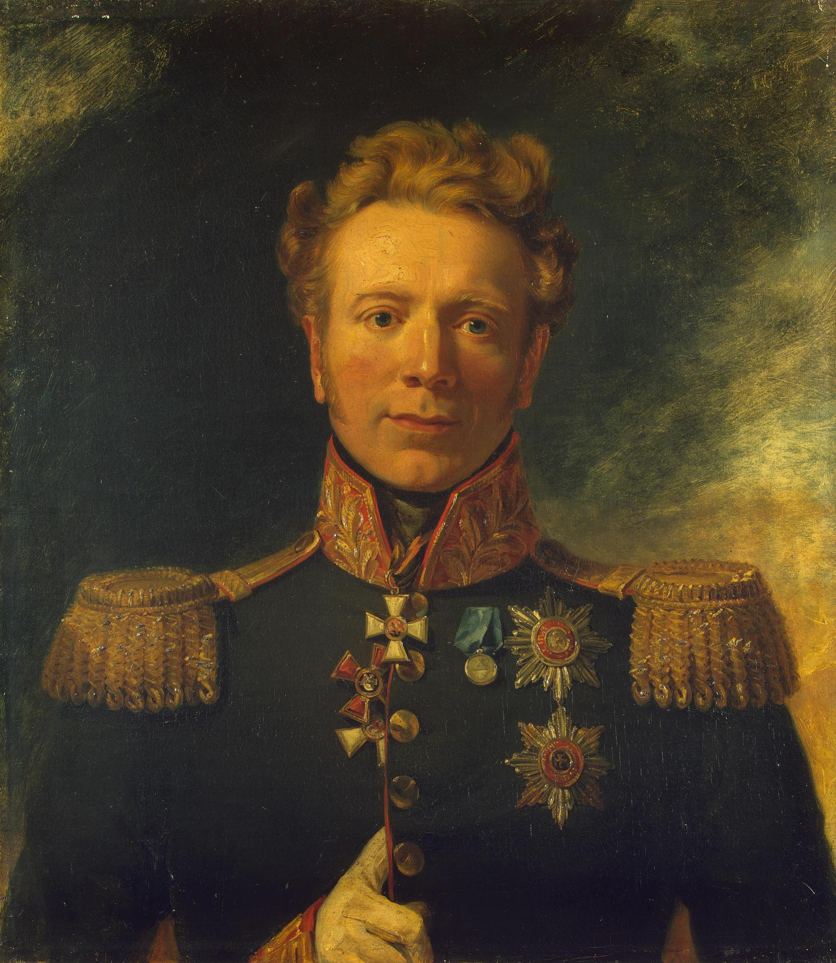 Liven, Ivan Andreyevich, 3-d (24.05.1775 – 14.02.1848) russian lieutenant general of the Imperial Russian Army.